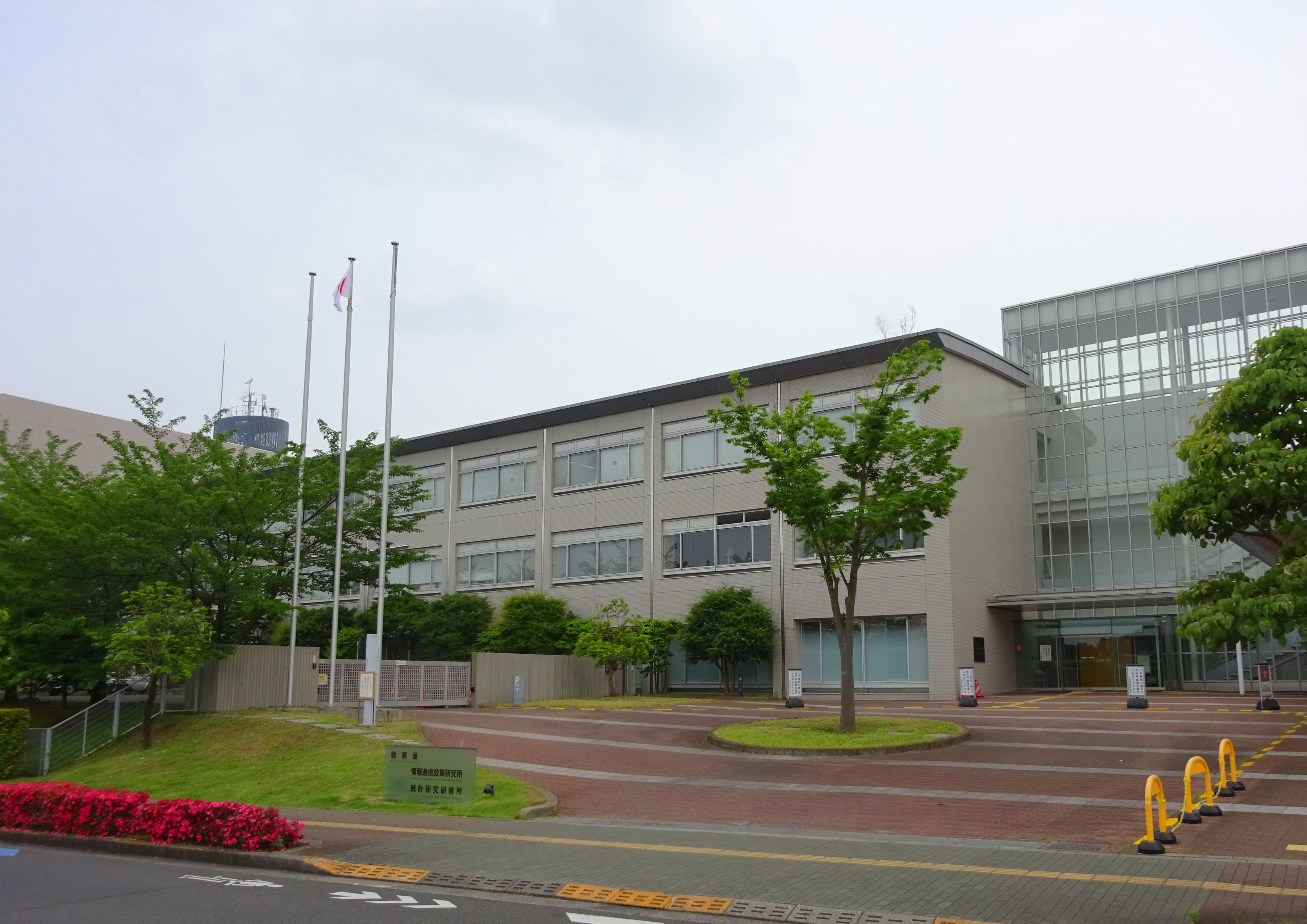 Institute for Information and Communications Policy(IICP) and Statistical Research and Training Institute(SRTI), Japan